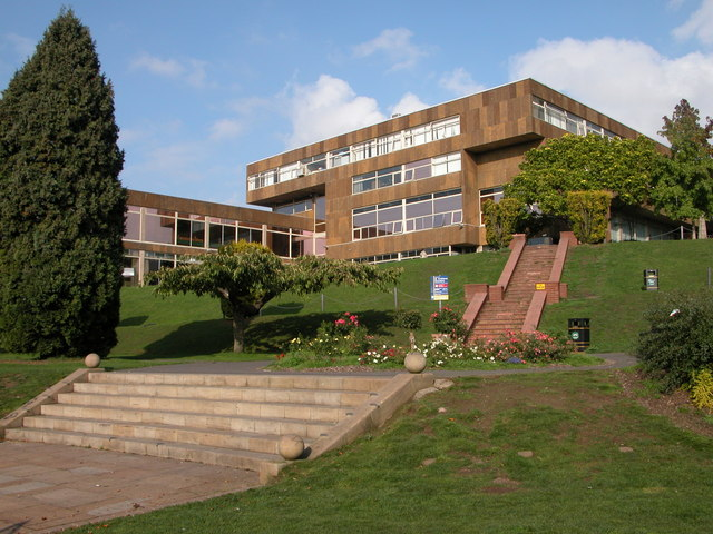 Worcester College of Technology The All Saints building viewed from near the river Severn.